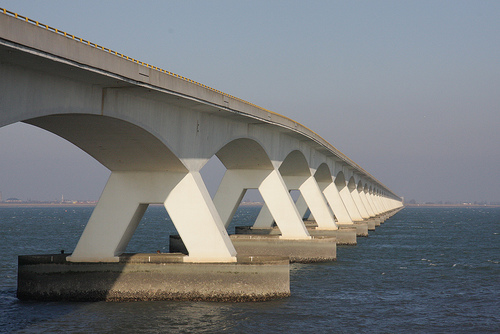 Zeeland Bridge Its number in the list of 89 proposed monuments is: 2013-71 For more information and the complete list, see the Dutch WIkipedia article: 89 topmonumenten uit de periode 1959-1965